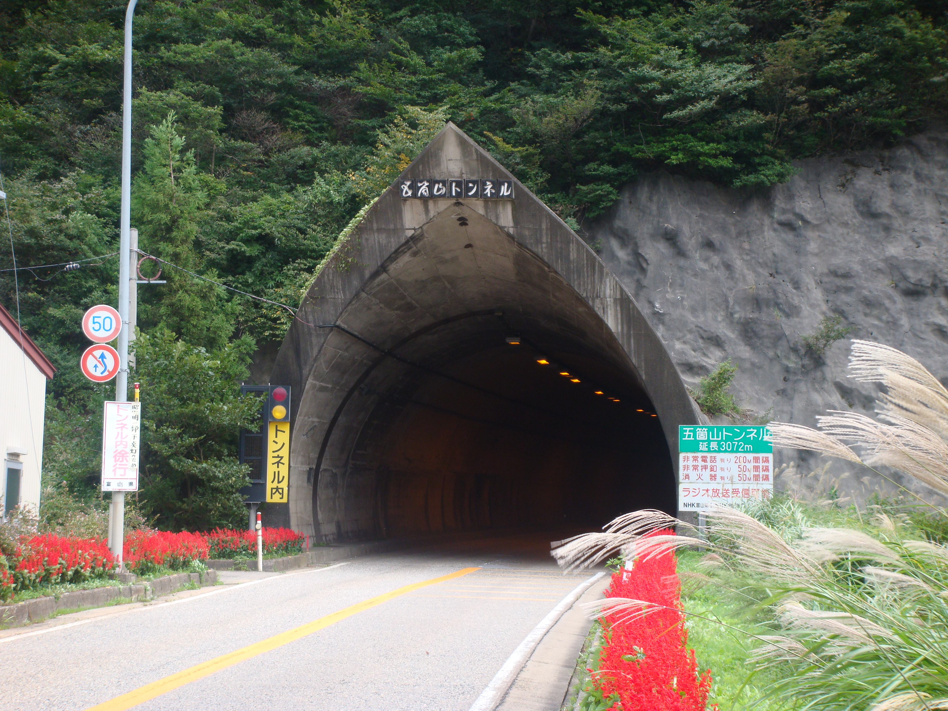 Gokayama Tunnel（Japan National Route 304） Place - Ogaya,Nanto City,Toyama Prefecture,Japan Date - October 3, 2010 Format - JPEG, 3648x2736pixel, 24bit colors Photographer - NALA Wiki (talk)